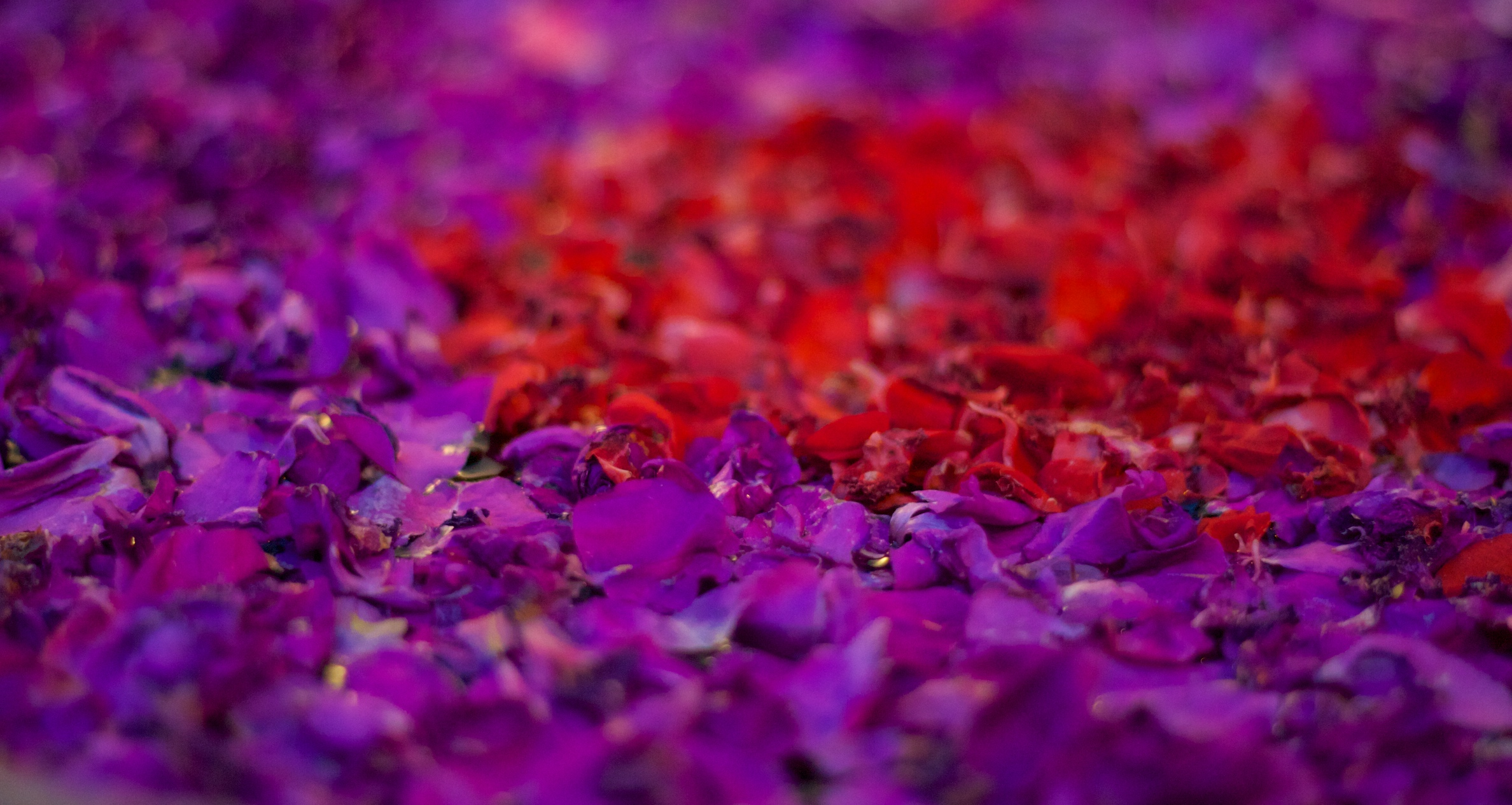 There was a lovely attention to aesthetics at the restaurants, hotels and especially the spas that ran together like a forest. Made it very pretty to window-shop and laze about